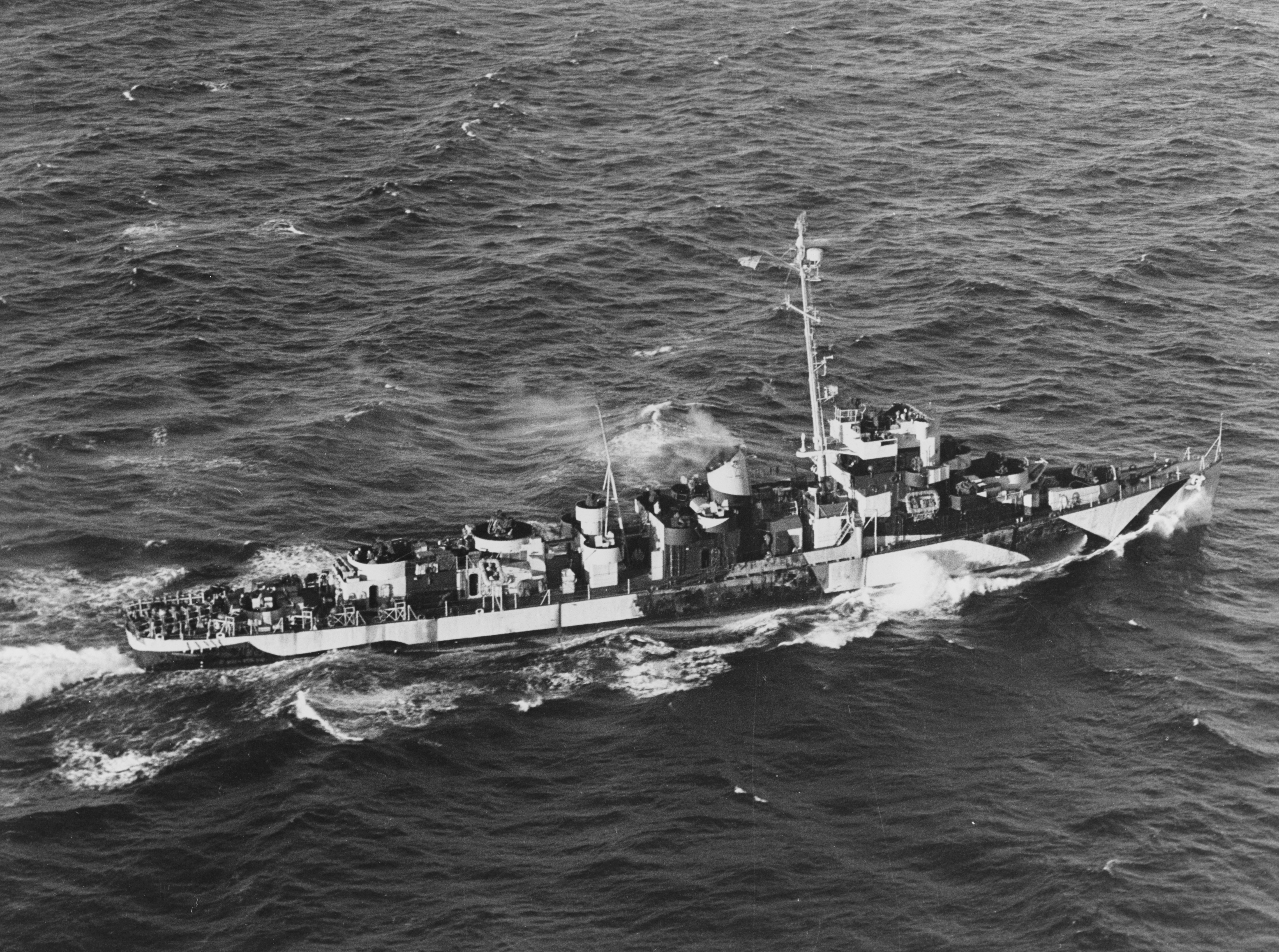 The U.S. Navy destroyer escort USS Evarts (DE-5) underway at sea, eastwards from Boston, Massachusetts (USA) on 19 August 1944. She was heading to the north-north-west (course 330). Evarts is wearing what appears to be Camouflage Measure 31 or 32, Design 10D.